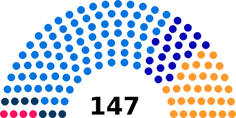 Seats diagramme of Swiss National Council (1899)